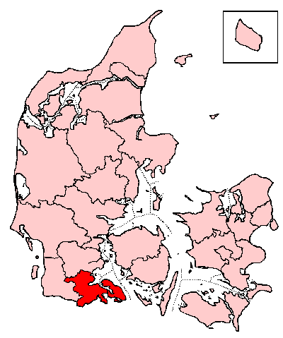 Map of Aabenraa-Sonderborg County 1932-1970